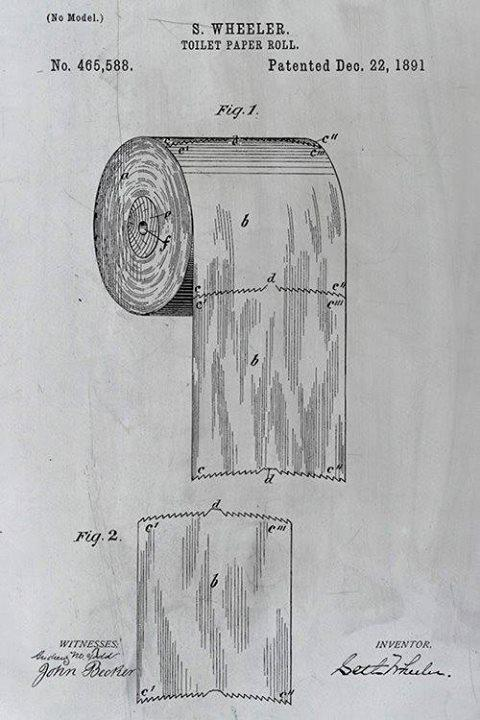 Patent 465.588, S. Wheeler, Toilet Paper Roll, Dec. 22, 1891